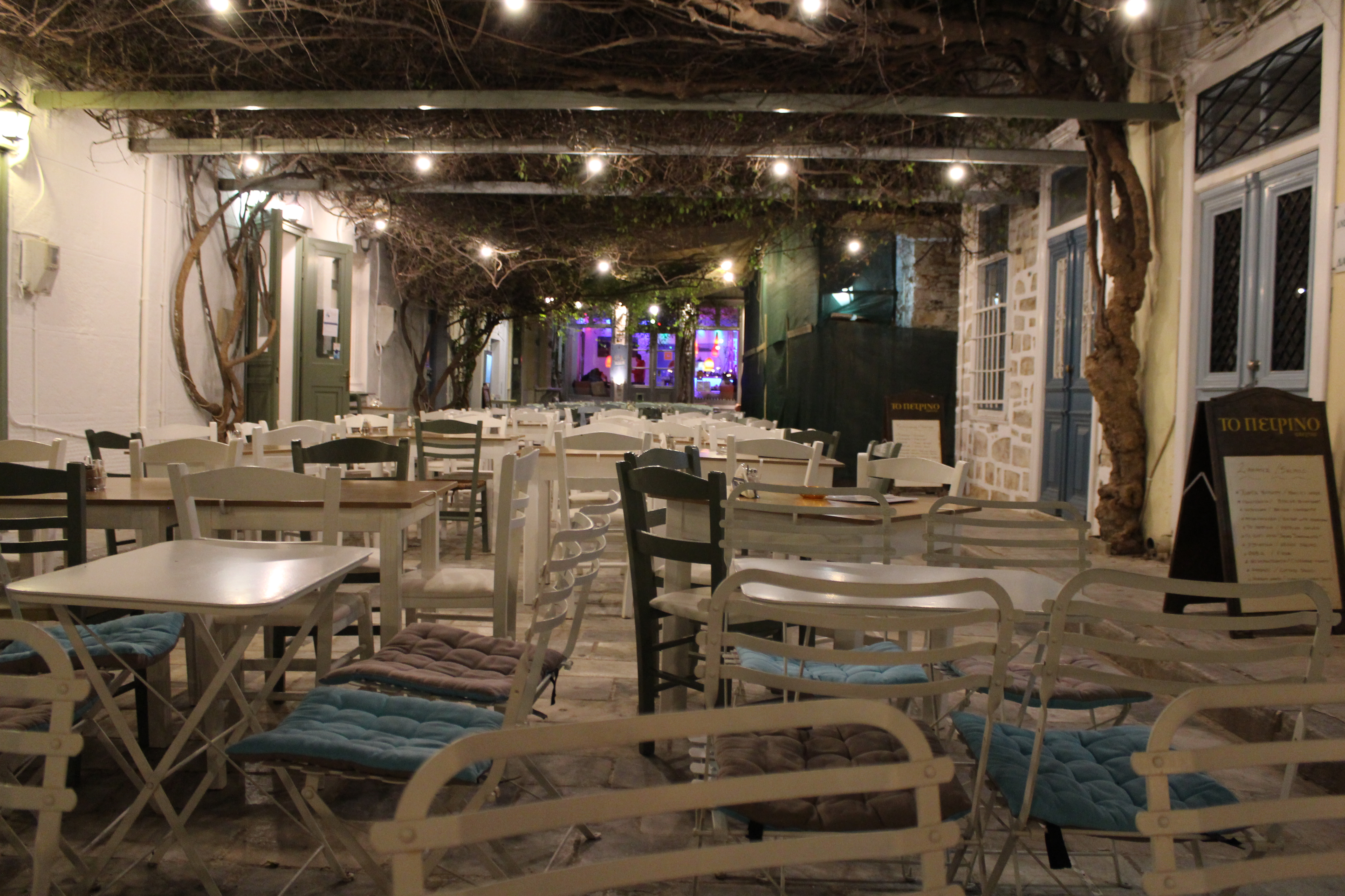 Restaurant Tables in Ermoupolis